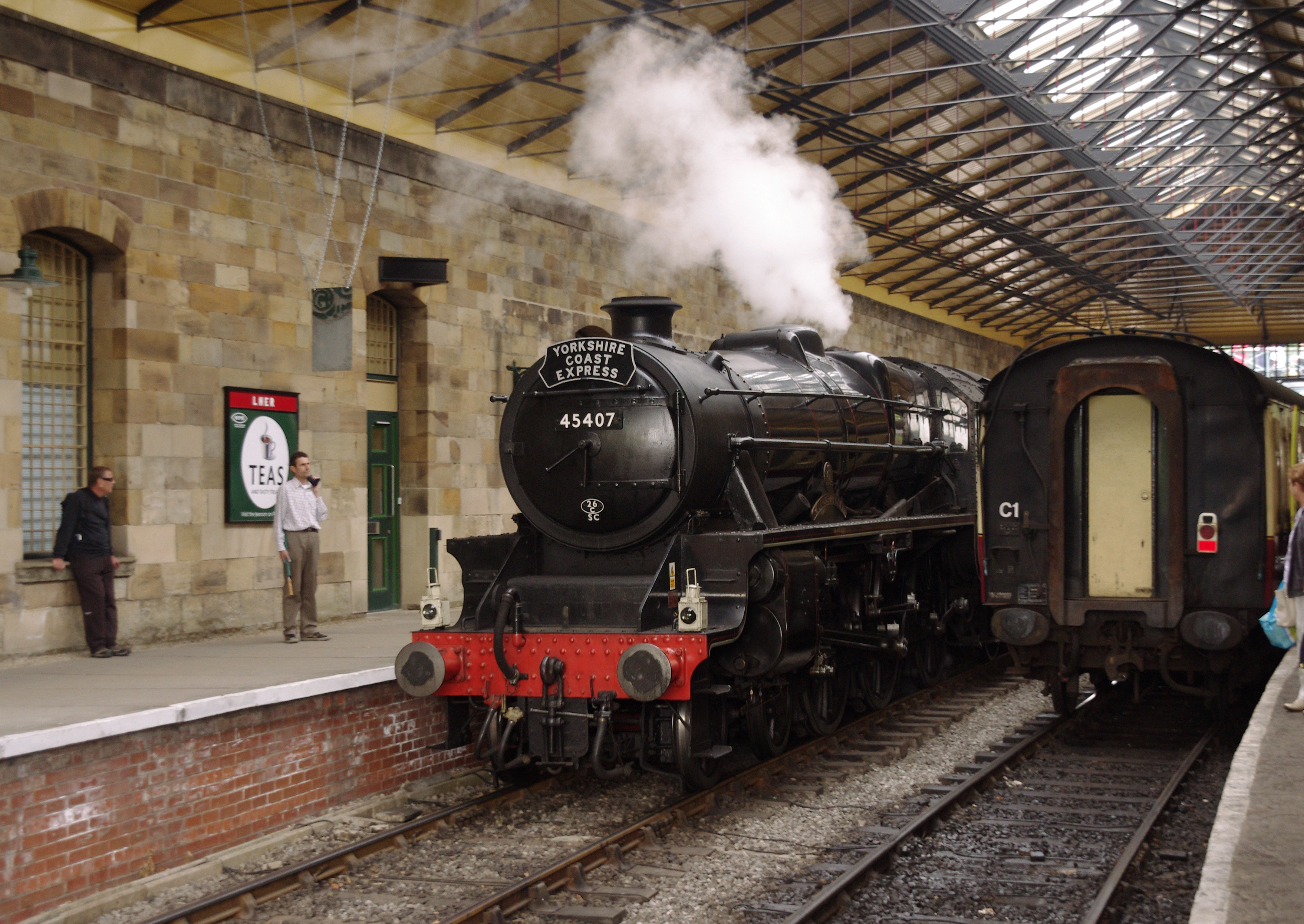 45407 pulls round some carriages at Pickering railway station.